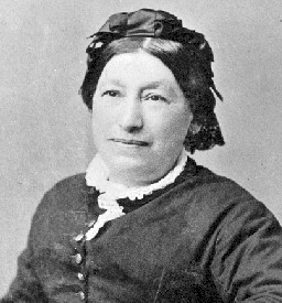 Esther Solomon Levy, taken about 1860. 2nd known Jewish marriage in New Zealand, first in Wellington (1842), only known Ketubah from NZ from the Colonial period. Son's birth (1843) was first known "Bris", or circumcision ceremony, second son (b 1844) was first Jewish burial in Wellington Jewish cemetary.